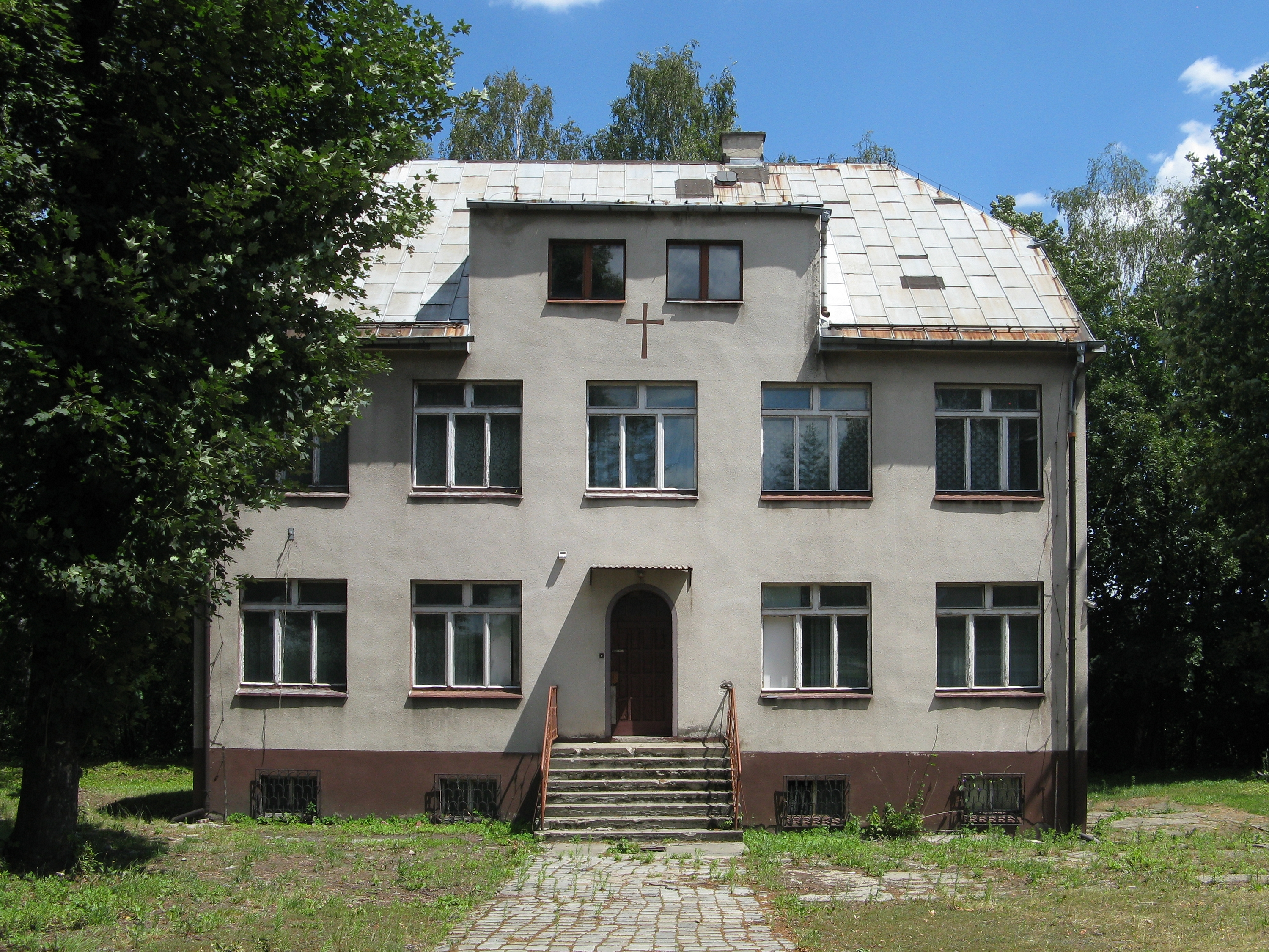 Bytom old Joseph church presbytery, Strzelców Bytomskich street.